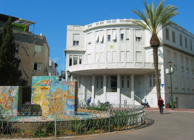 Old Tel Aviv Municipality on Bialik Street with mosaic fountain by Israeli artist Nahum Gutman.